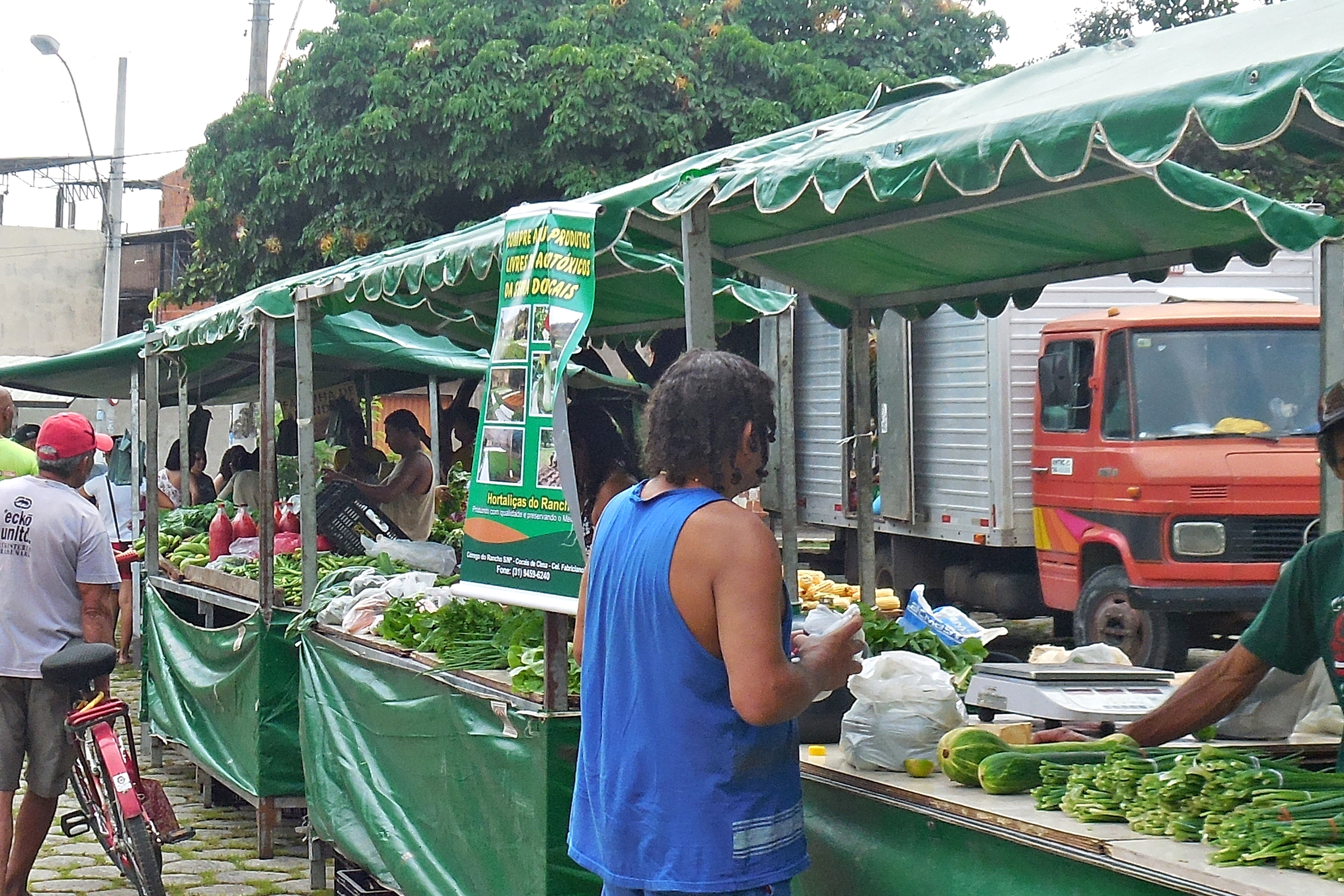 Vegetables in the popular fair of the Bíblia square, in Coronel Fabriciano, Minas Gerais, Brazil.